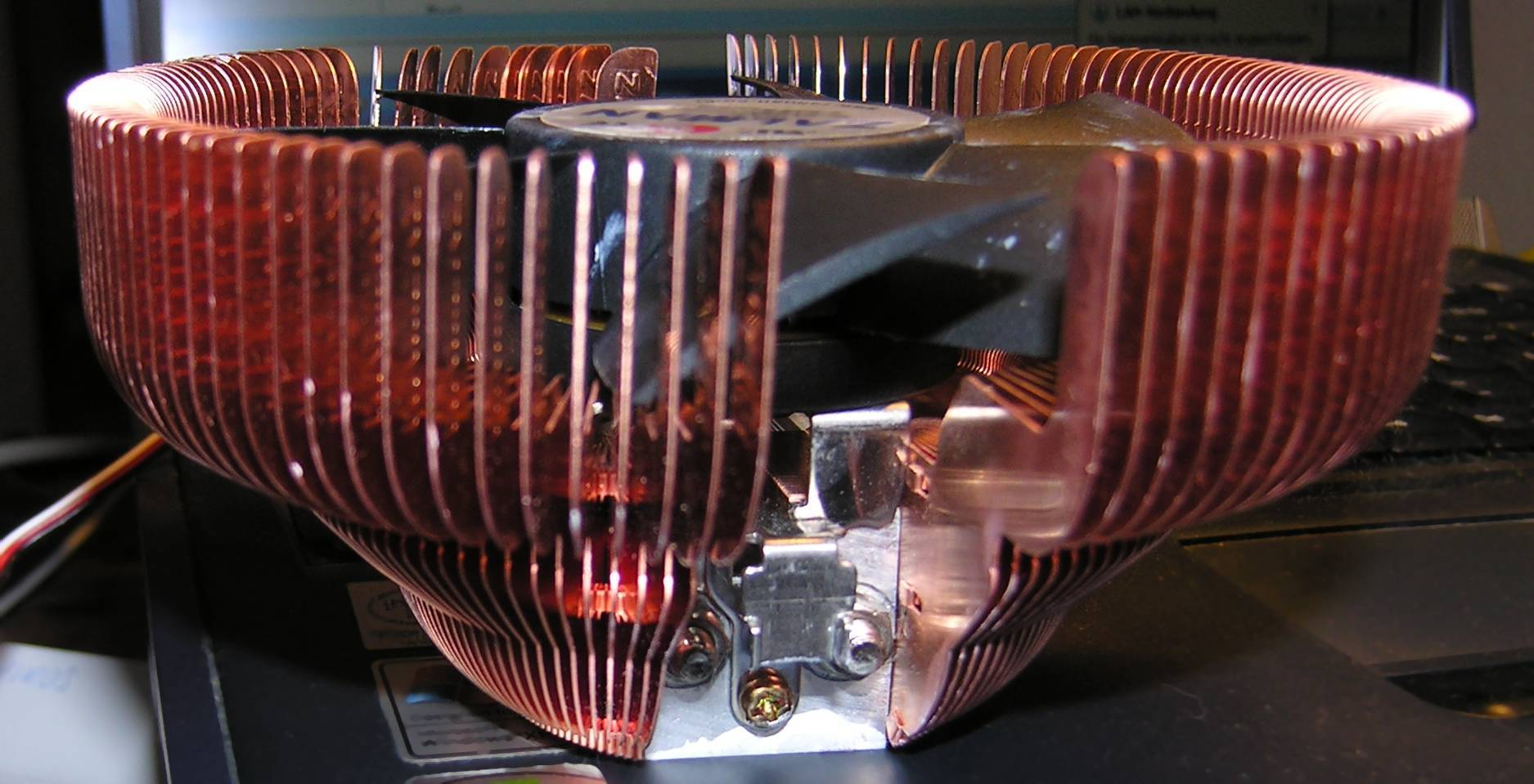 CPU heat sink with wide low noise fan. The heat sink is a Zalman CNPS7000C-Cu. The construction of this device is covered by several patents, but I think they only apply for manufacturing, not the image of device. Much more detailed description should be found in the patent itself. Patents: Korean 00-54635, Korean 04-16030, other applications pending.